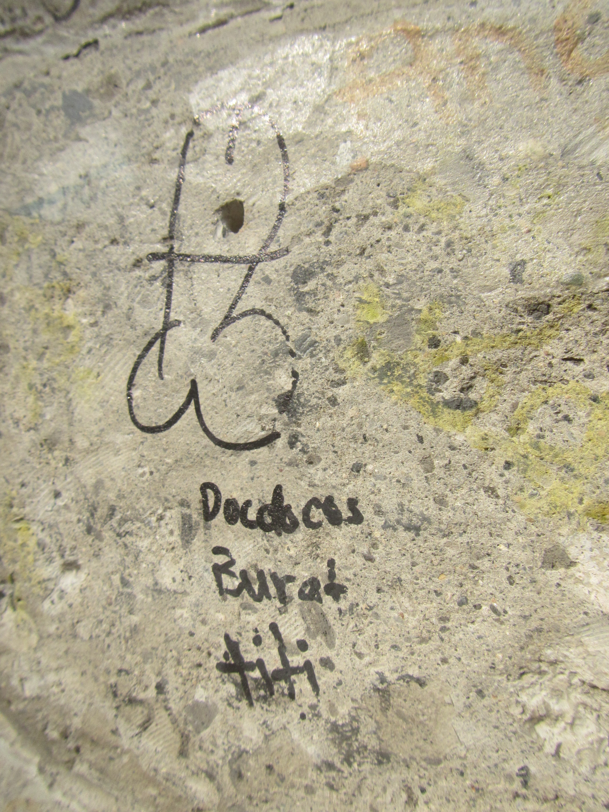 Obscene drawing of a penis on the wall of the Pinaglabanan Memorial Shrine in San Juan, Metro Manila, Philippines. Note: I am not uploading this image in an attempt to vandalize Commons. I plan to use this for the Tagalog profanity Wikipedia article. Please don't delete it.